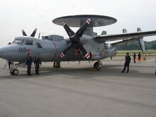 Photo taken at RSAF Open House. 111Sqn E-2C Hawkeye